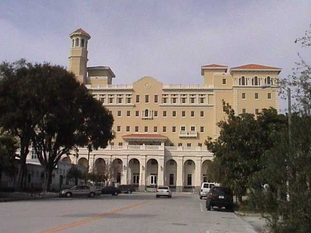 Church of Scientology "Super Power" Building in Clearwater Florida.